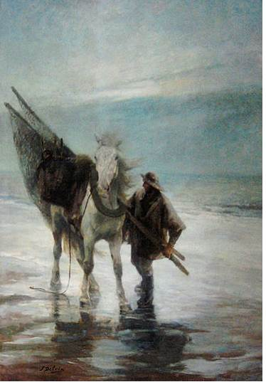 "Shrimpers at Koksijde", painting by Jean Delvin (1853-1922)